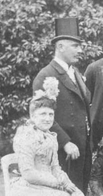 Cropped image of Ali Barlas (1869 – 15 March 1953)